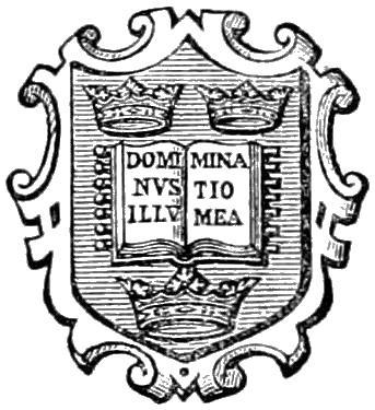 Early logo of Oxford Universite Press, taken from History of botany (1530–1860), Henry E. F. Garnsey's 1890 English translation of Julius von Sachs' German classic Die Geschichte der Botanik.